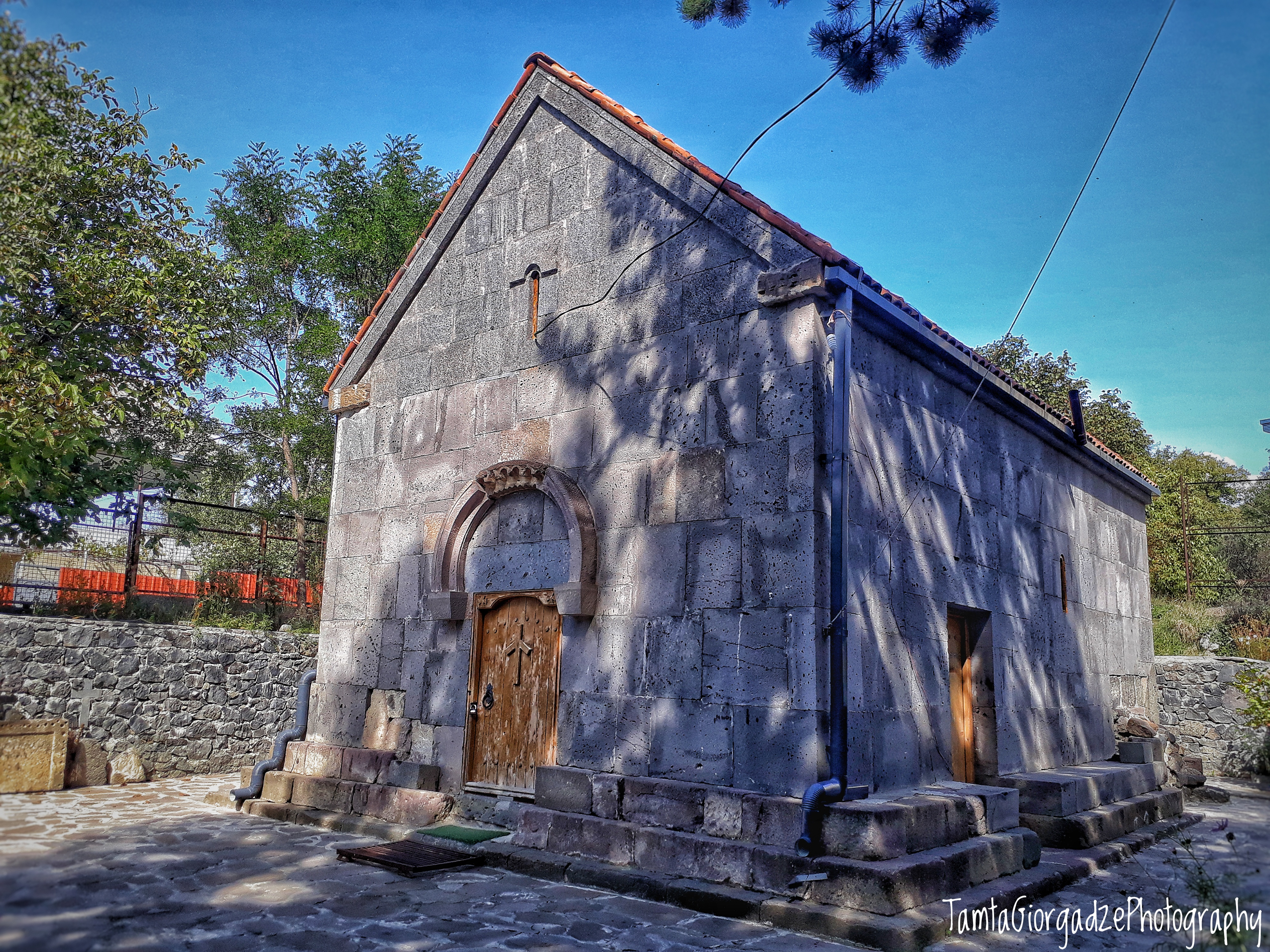 This is church of st.George,in Georgia_Samtskhe-Javakheti_Aspindza. Church built in XI century. today this is restored.თქვენს წინაშეა ასპინძის წმ.გიორგის სახელობის ეკლესია(სამცხე-ჯავახეთი). იგი XI საუკუნის ტაძარია,მისი დღევანდელი სახე რესტავრირებულია